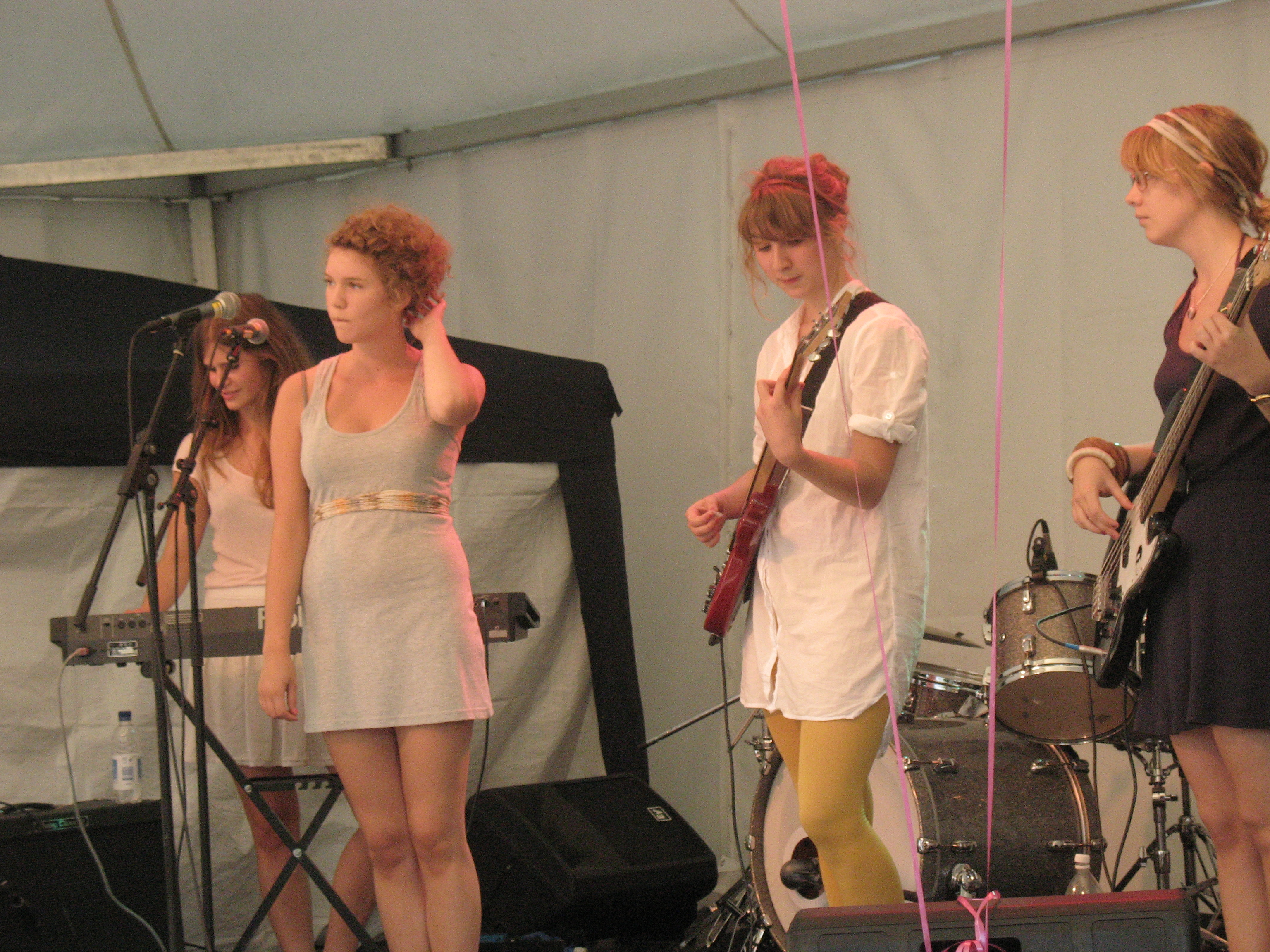 Those Dancing Days at Ung 08 2007